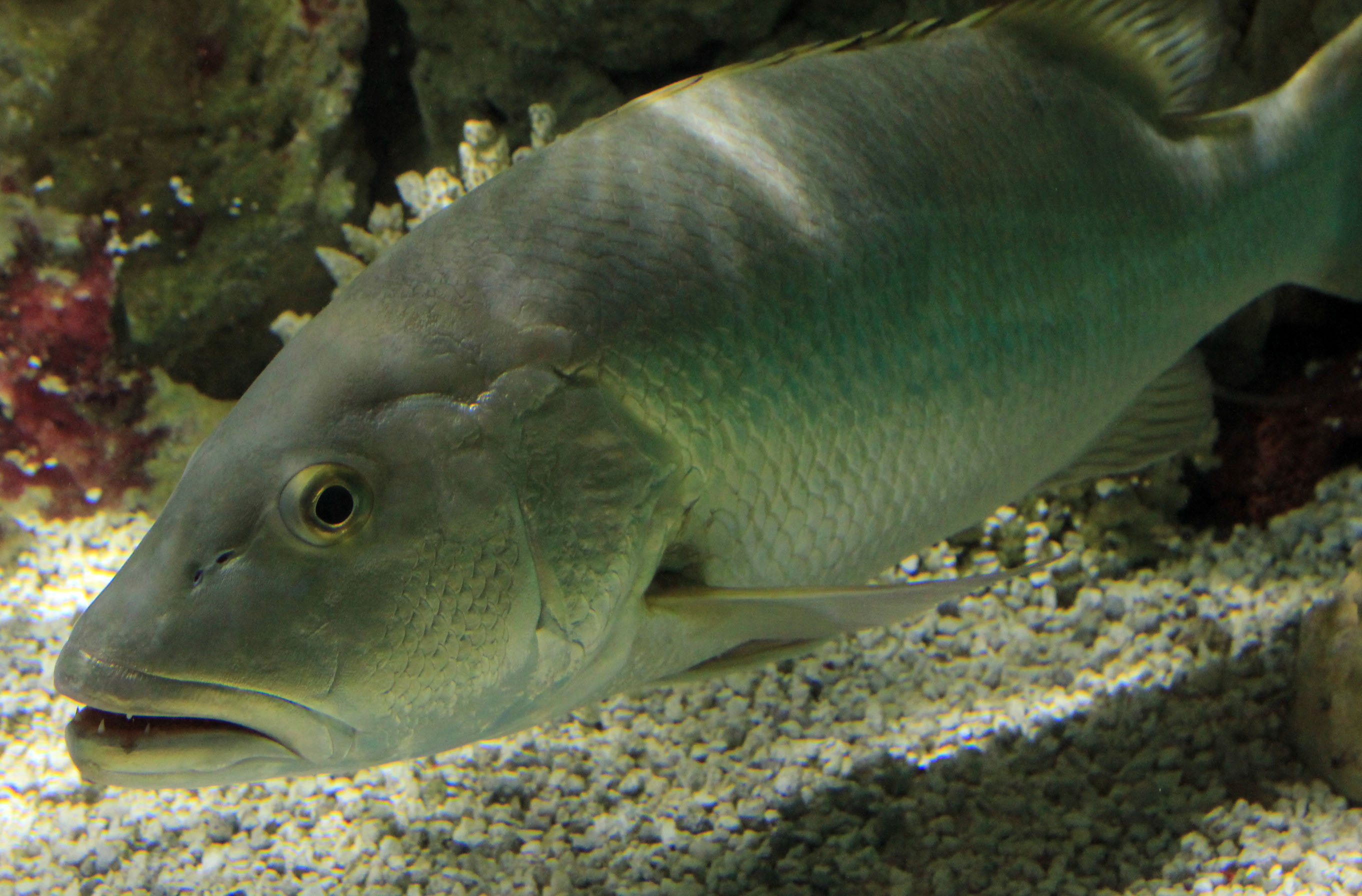 Different types of fishes A giant snapper species in the Atlantic. Inhabits the Southern florida, the Caribbean , and the Bahamas.